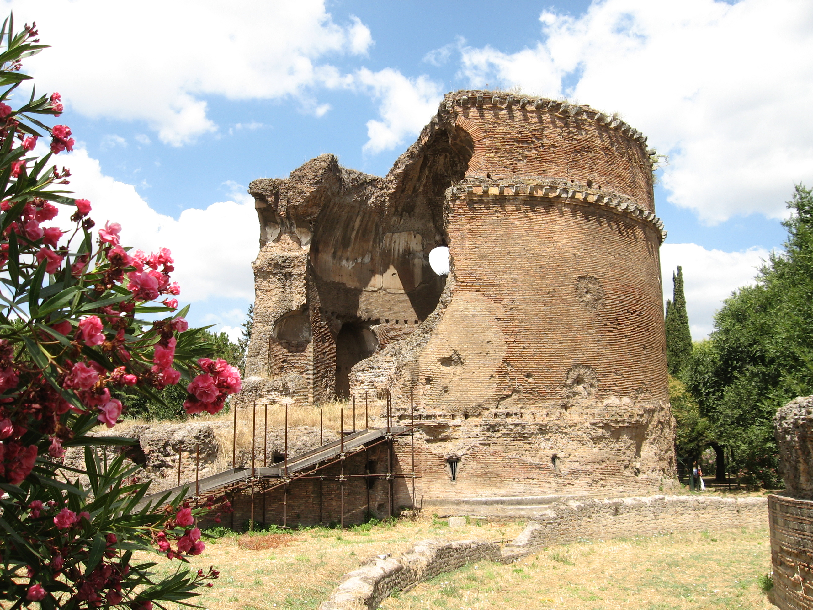 View of the Mausoleum of Villa Gordiani, Rome.